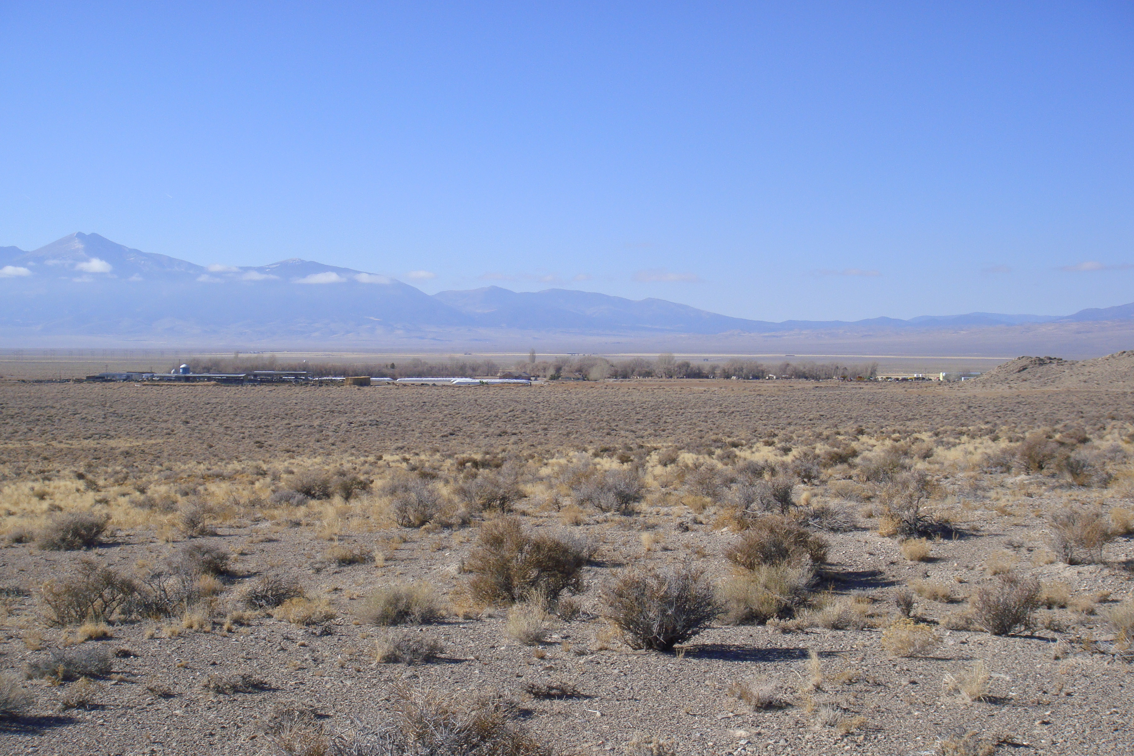 The community of EskDale, Utah, view to the west.